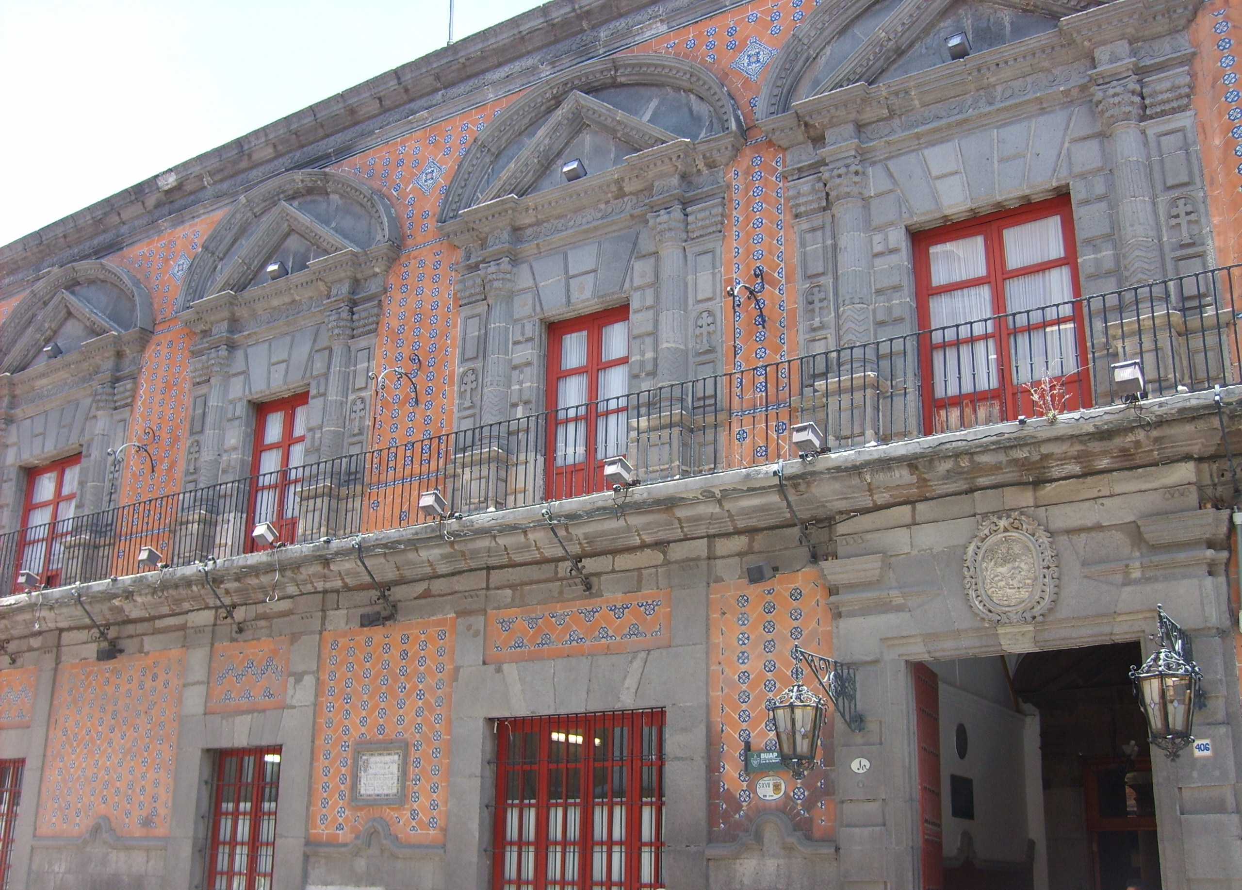 Casa de la Bóveda — within the Historic center of Puebla of the City of Puebla, Puebla state, México. Formerly housed the Academy of Arts in Puebla, that was founded by the priest Jimenez de las Cuevas.